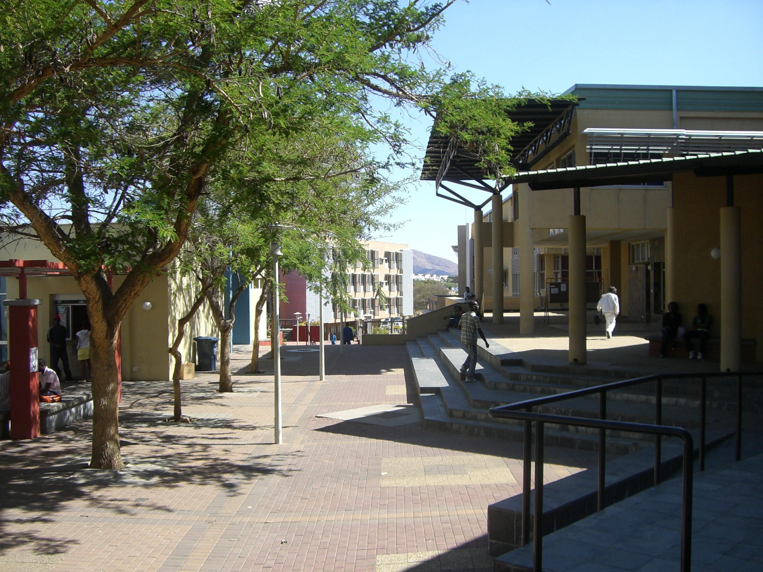 Polytechnic of Namibia, Windhoek - Engineering campus